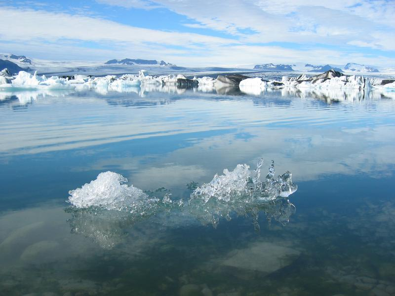 A glacial lake at Jökulsárlón, Iceland. This is where several films including James Bond, Die Another Day (2002) and Batman Begins (2005) were filmed. I took this picture in August of 2003.